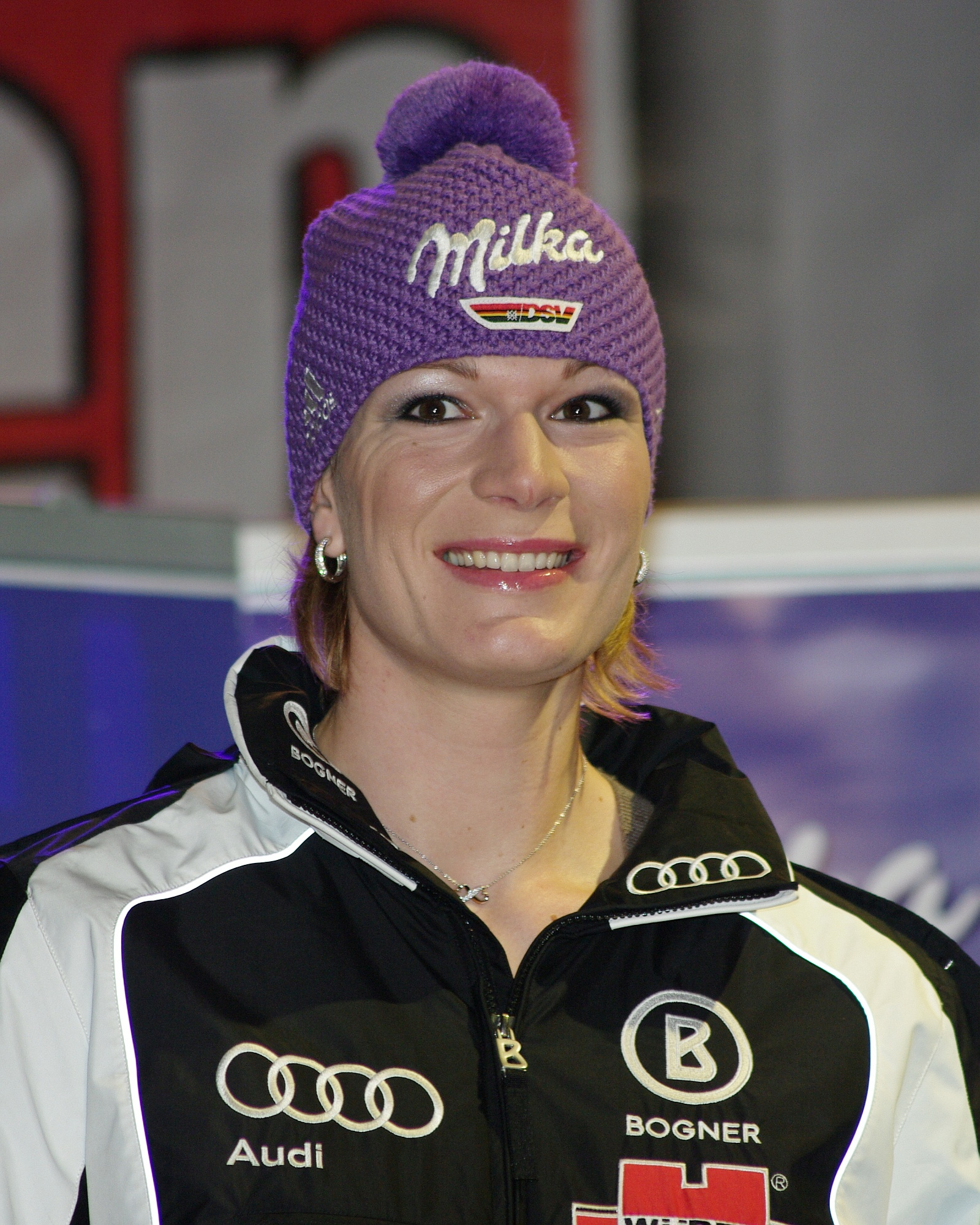 German alpine skier Maria Riesch at the bib draw for the Downhill in Altenmarkt-Zauchensee (Austria) on 8 January 2011.